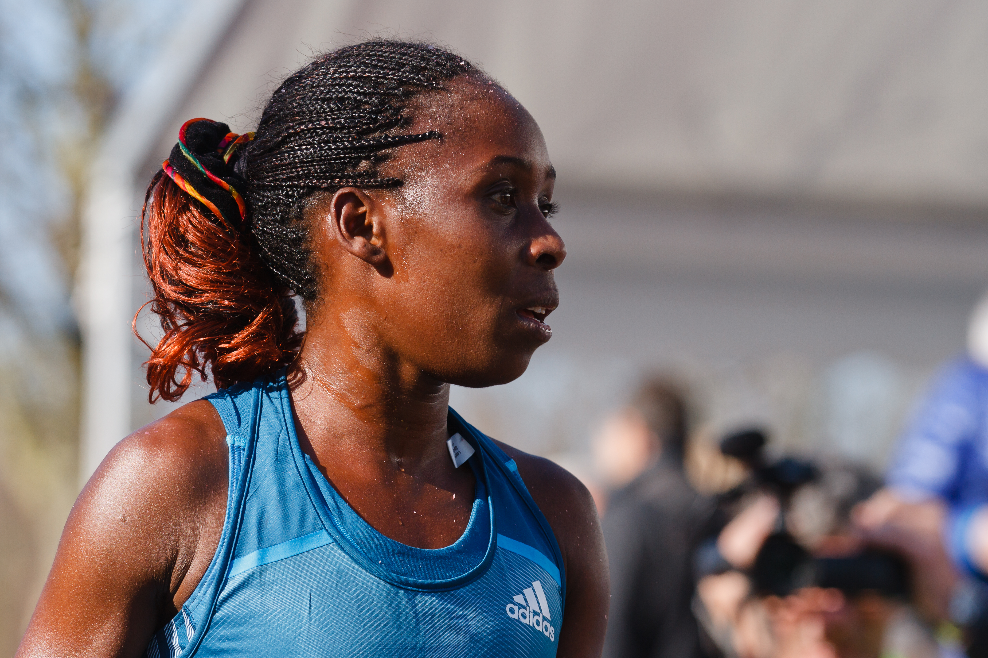 Sarah Chepchirchir, 3rd of the Paris Half Marathon 2014, in the arrival zone seconds after she finished.